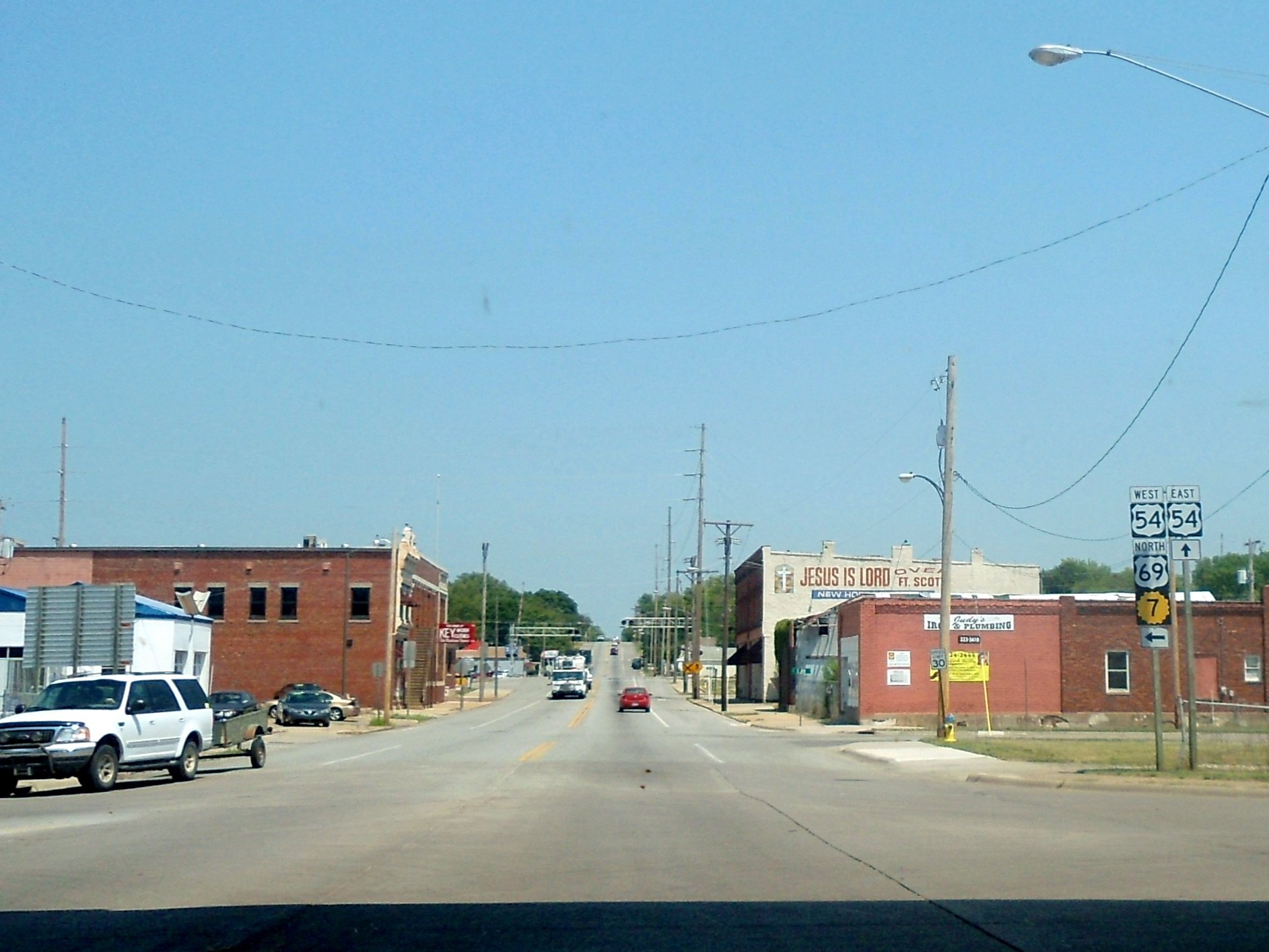 US 54 intersects US 69 and K-9 in Fort Scott, Kansas. Shadow is from overpass which carries US 69.